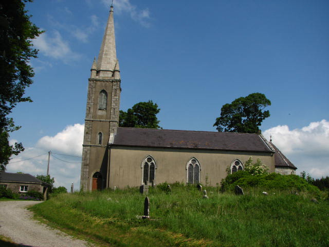 All Saints Aghade A very old Church, still in use, with a nice pathway to the entrance. It has two graveyards, the first has tombstones dating from the early 1700s, not in use, while the second is in use. This Church has an impressive clock on the front.